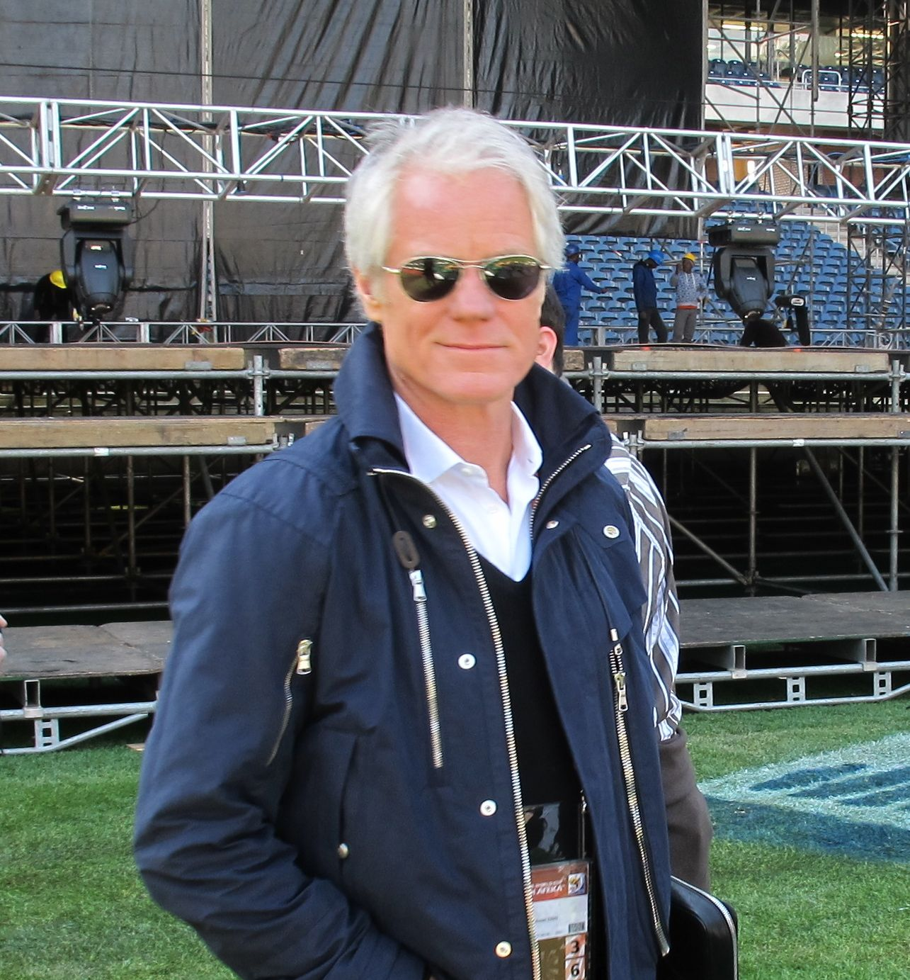 Kevin Wall at Orlando Stadium in Soweto, Johannesburg on 2 June 2010